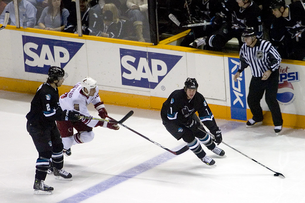 Phoenix Coyotes vs. San Jose Sharks